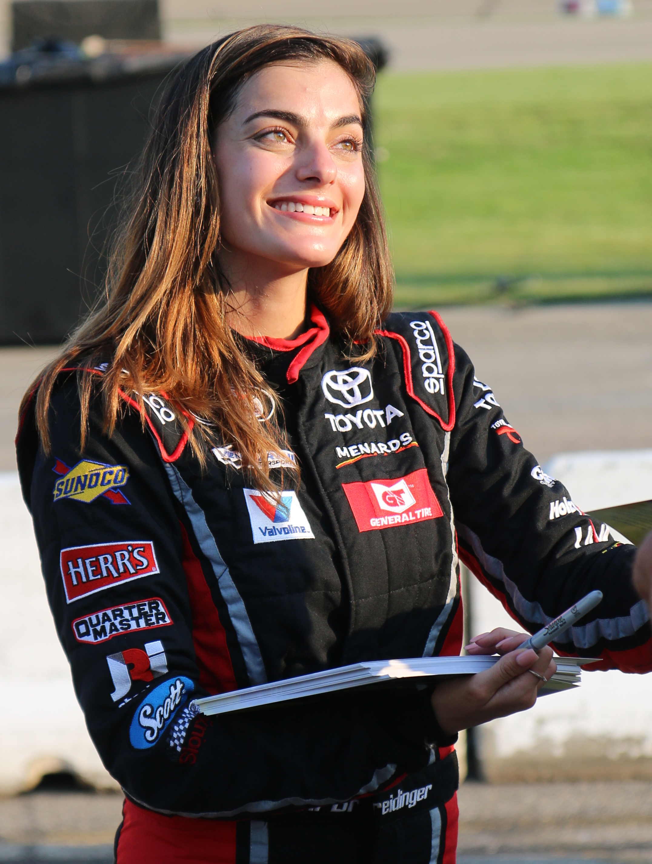 ARCA driver Toni Breidinger posing for a photograph at Madison International Speedway. It was her first race in the series.